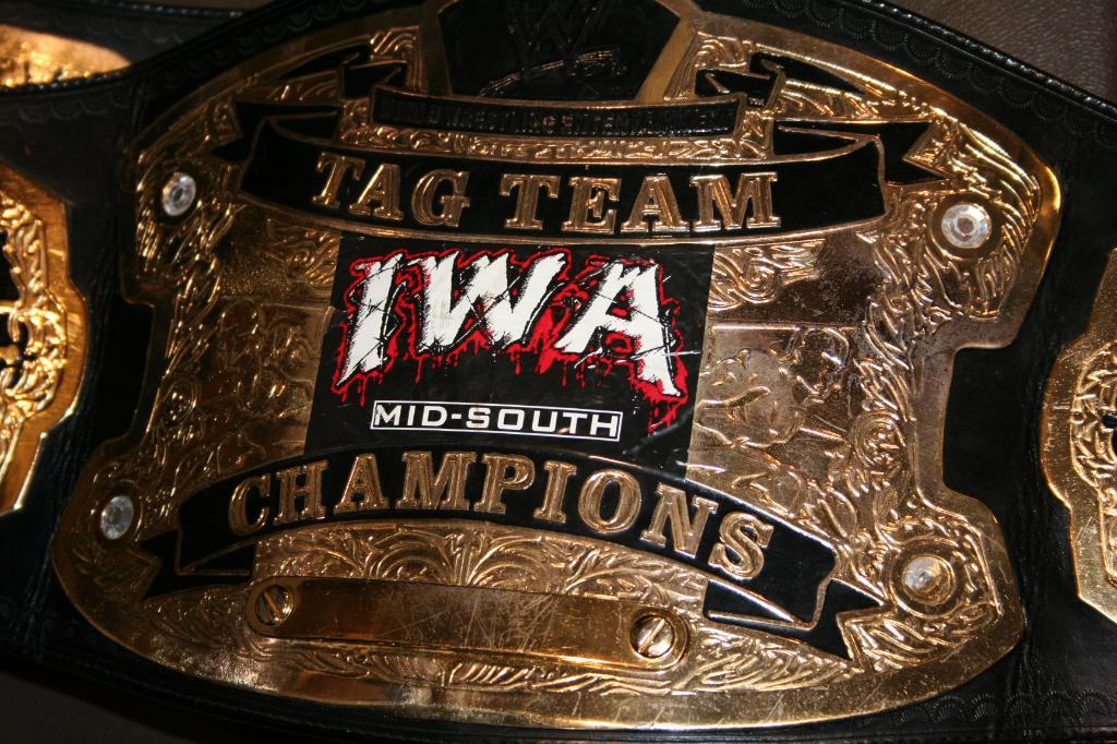 IWA Mid-South Tag Team Championship Belt